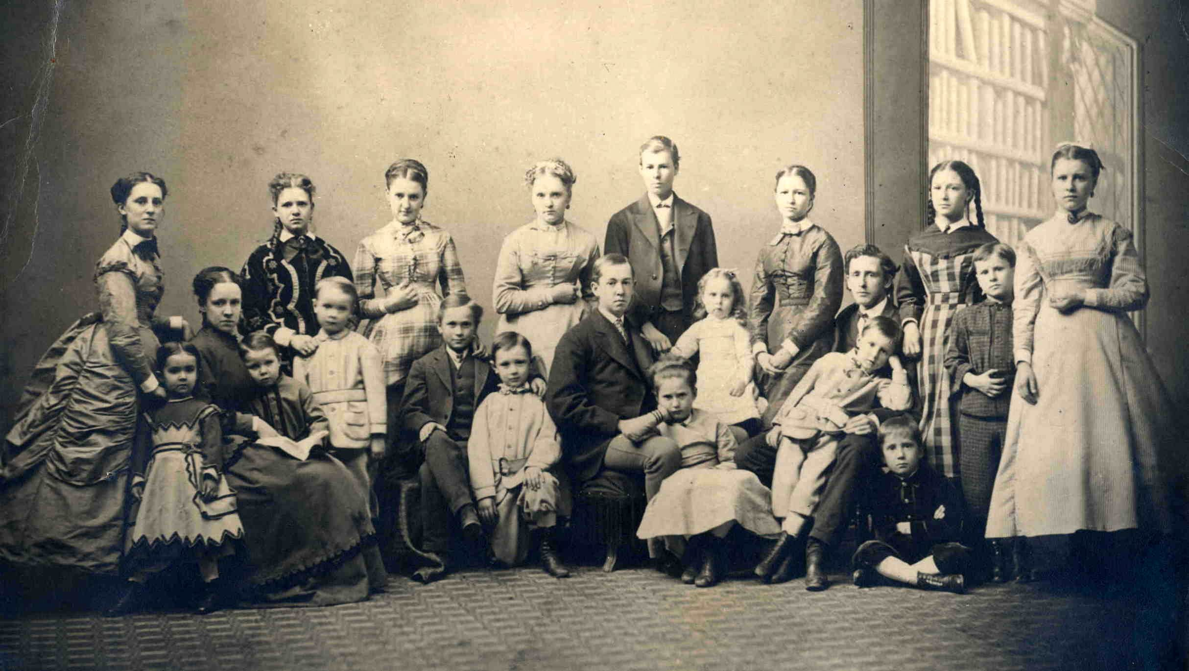 Yale professor and famed chemist Benjamin Silliman with his extended family.